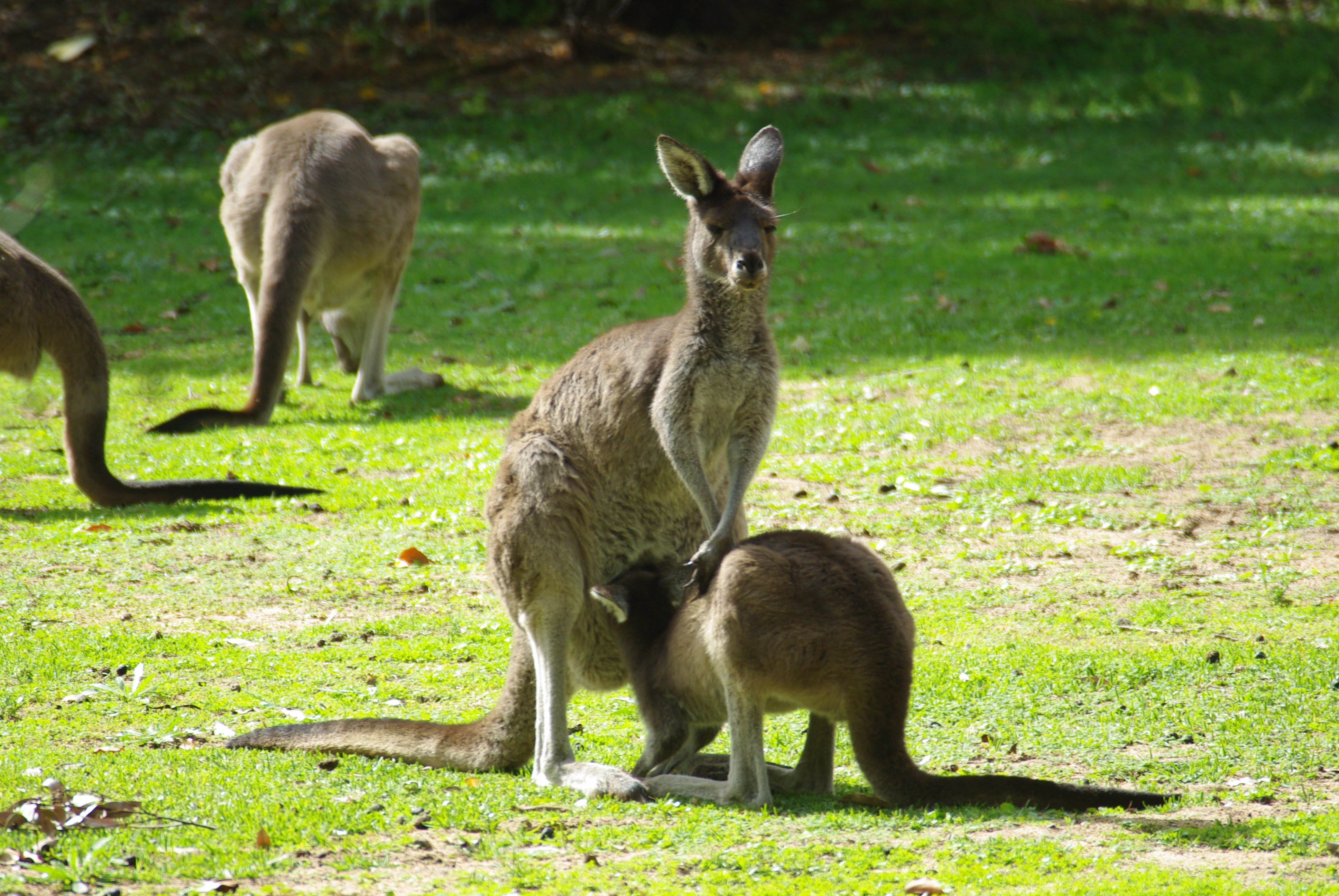 Western Grey kangaroo feeding young, Darling range, Western Australia